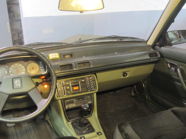 Peugeot 505 Gti 1985 dashboard. Made at PSA factory in Vigo, Spain.